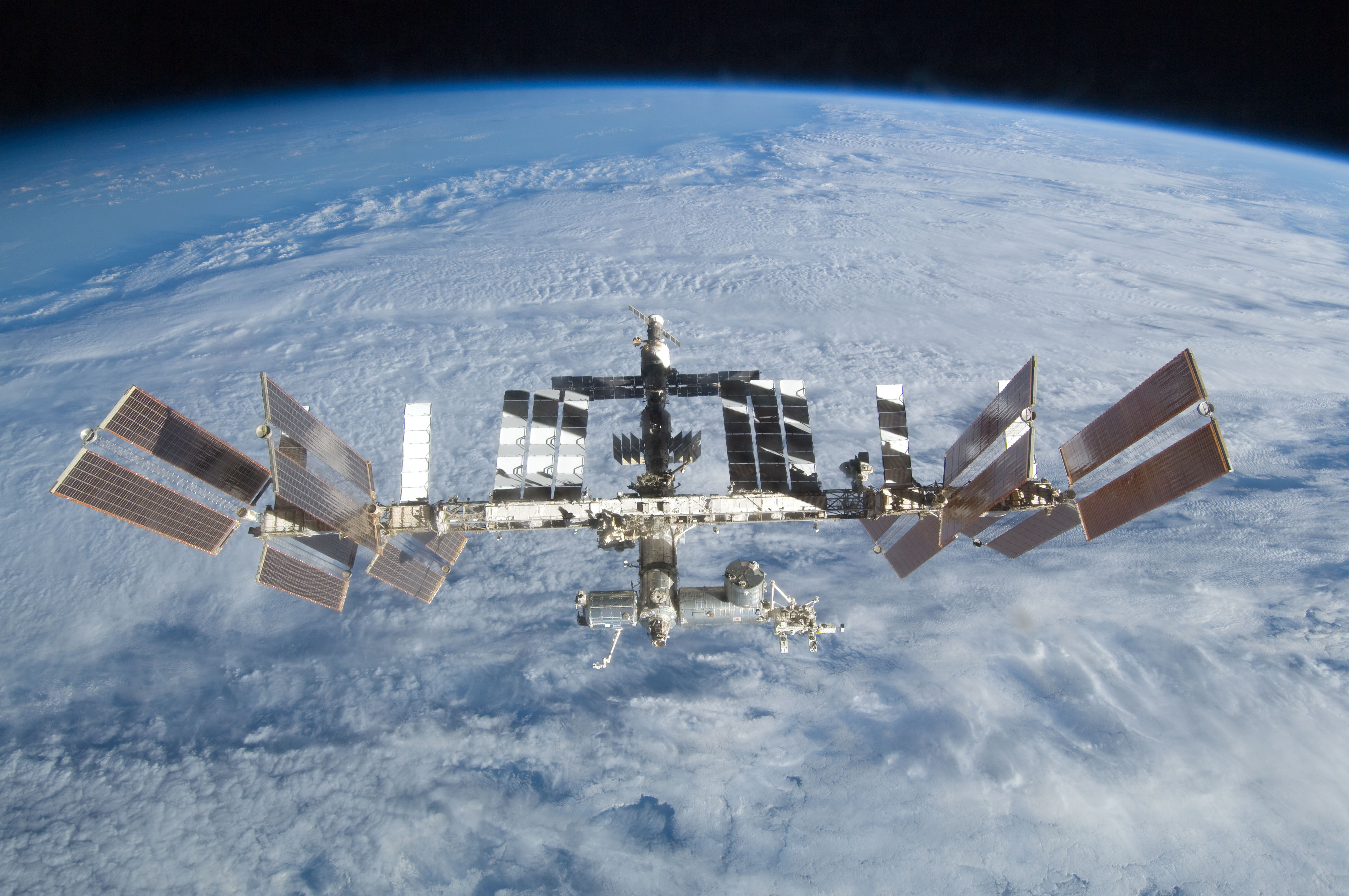 Backdropped by Earth's horizon and the blackness of space, the International Space Station is seen from Space Shuttle Discovery as the two spacecraft begin their relative separation. Earlier the STS-128 and Expedition 20 crew concluded nine days of cooperative work onboard the shuttle and station. Undocking of the two spacecraft occurred at 2:26 p.m. (CDT) on Sept. 8, 2009.